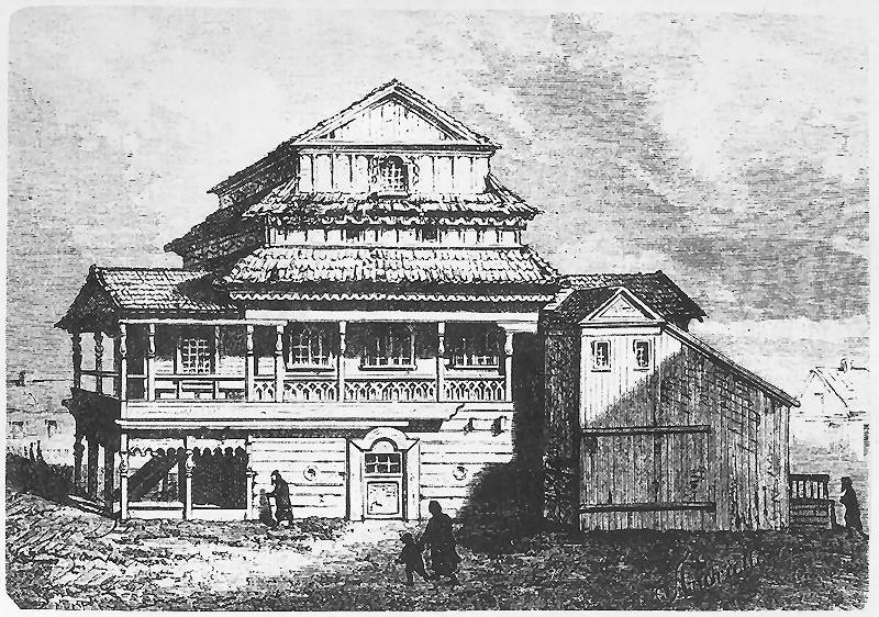 Jurbarkas Synagogue by Michał Elwiro Andriolli